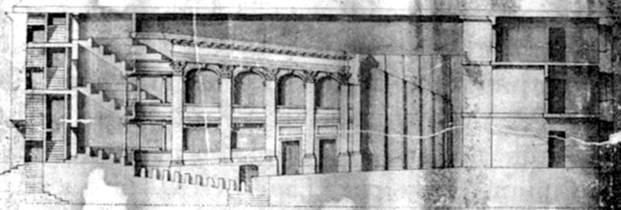 Longitudinal sectional drawing with single inscription: "Play house". Torn twice across, as if discarded. Held at All Soul's College Library, University of Oxford.